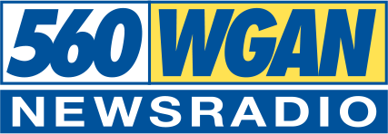 This was the Logo of 560 WGAN (from July 2002 until May 27, 2014), before the addition of Low-Power FM Translator Frequency, 105.5 W288CU-FM.